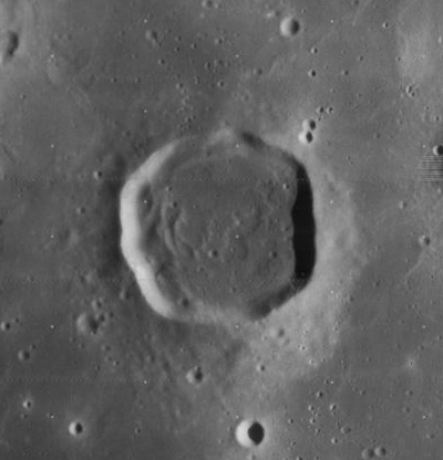 Reprocessed Lunar Orbiter 4 image cropped in Adobe Photoshop to show Lassell crater and surrounding terrain. The original image should be public domain as it is a work of the U.S. Government (NASA).